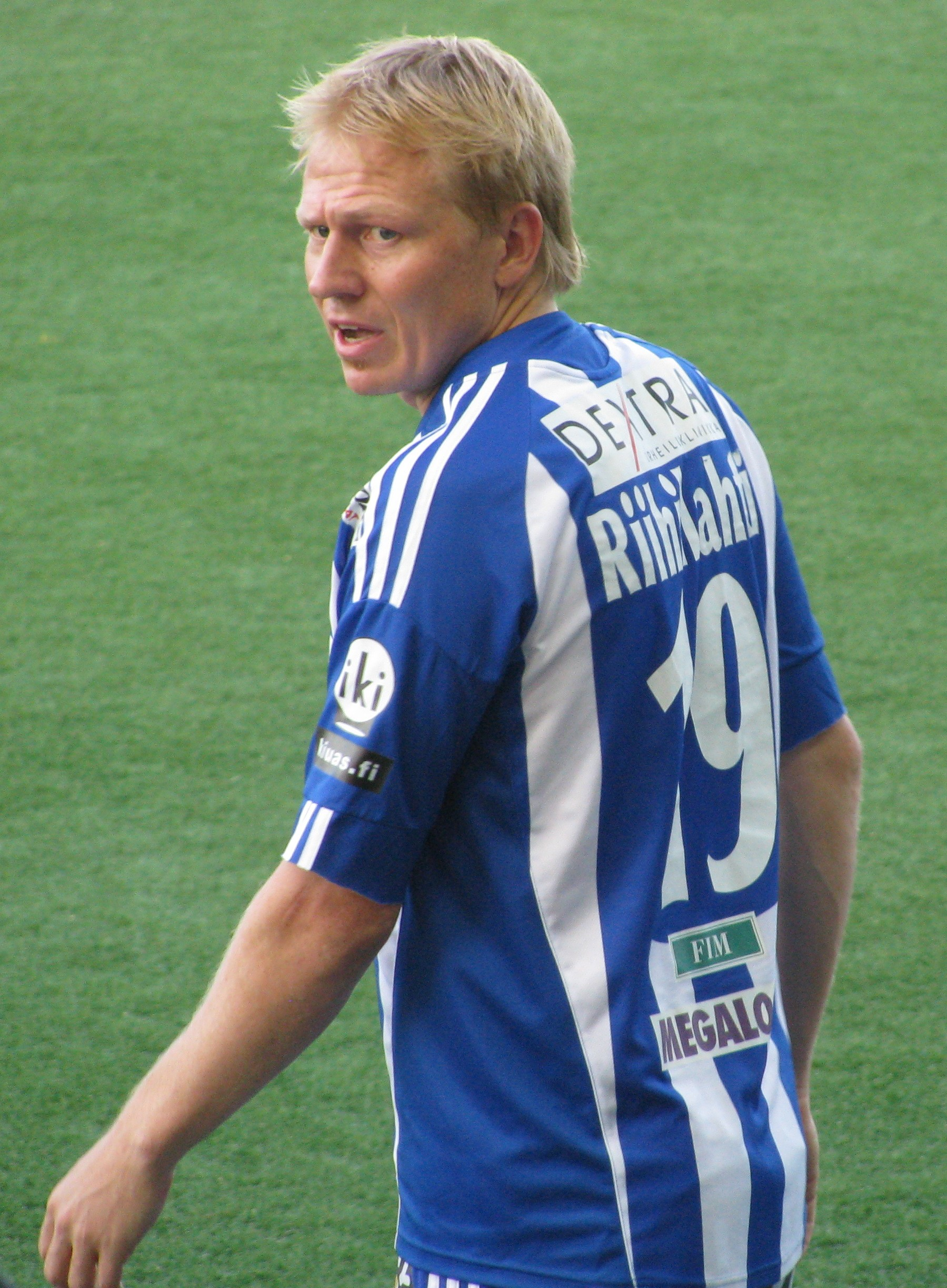 Aki Riihilahti (HJK)